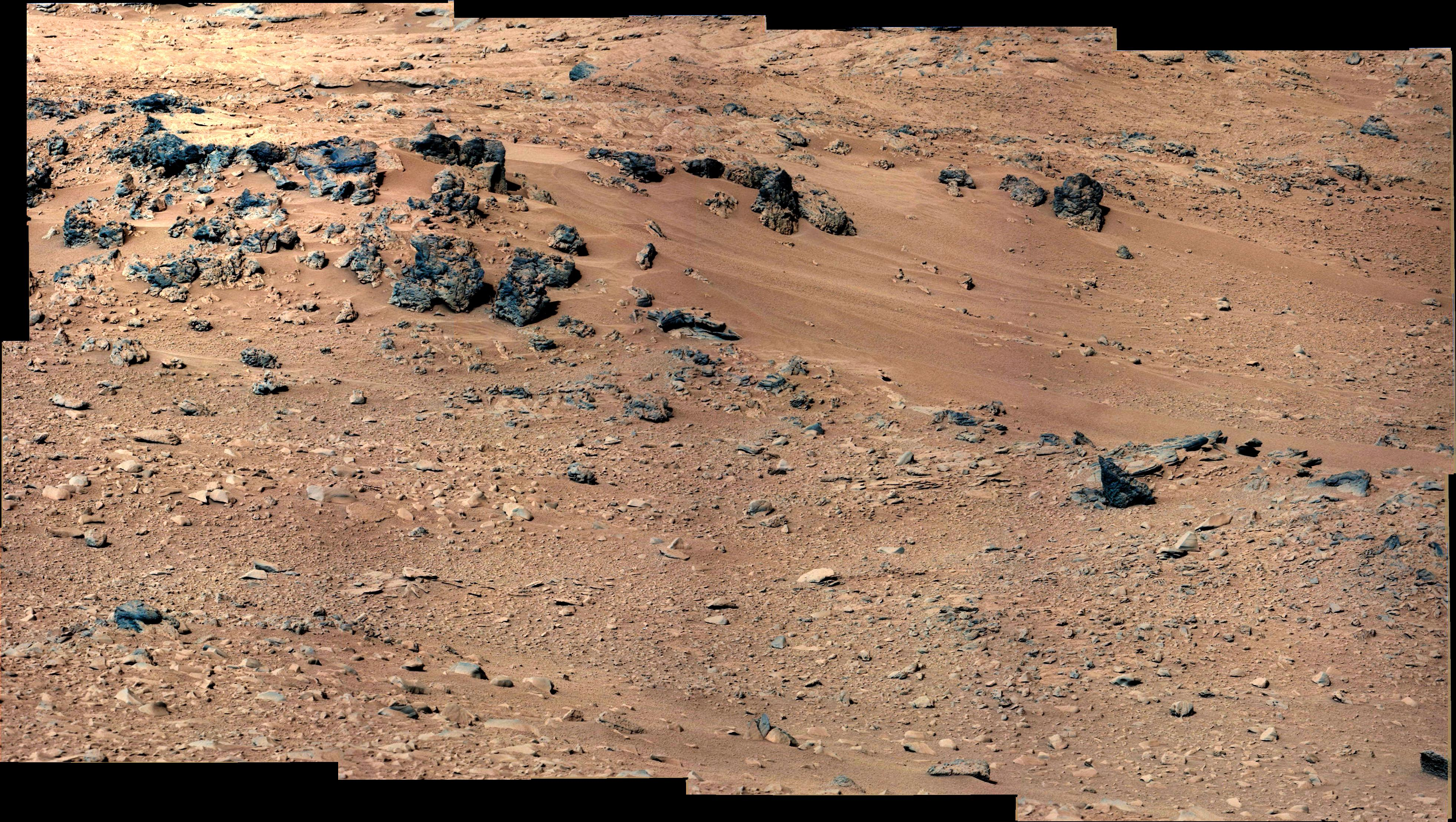 10.04.2012 'Rocknest' From Sol 52 Location This patch of windblown sand and dust downhill from a cluster of dark rocks is the "Rocknest" site, which has been selected as the likely location for first use of the scoop on the arm of NASA's Mars rover Curiosity. This view is a mosaic of images taken by the telephoto right-eye camera of the Mast Camera (Mastcam) during the 52nd Martian day, or sol, of the mission (Sept. 28, 2012), four sols before the rover arrived at Rocknest. The Rocknest patch is about 8 feet by 16 feet (1.5 meters by 5 meters). Scientists white-balanced the color in this view to show the Martian scene as it would appear under the lighting conditions we have on Earth, which helps in analyzing the terrain.